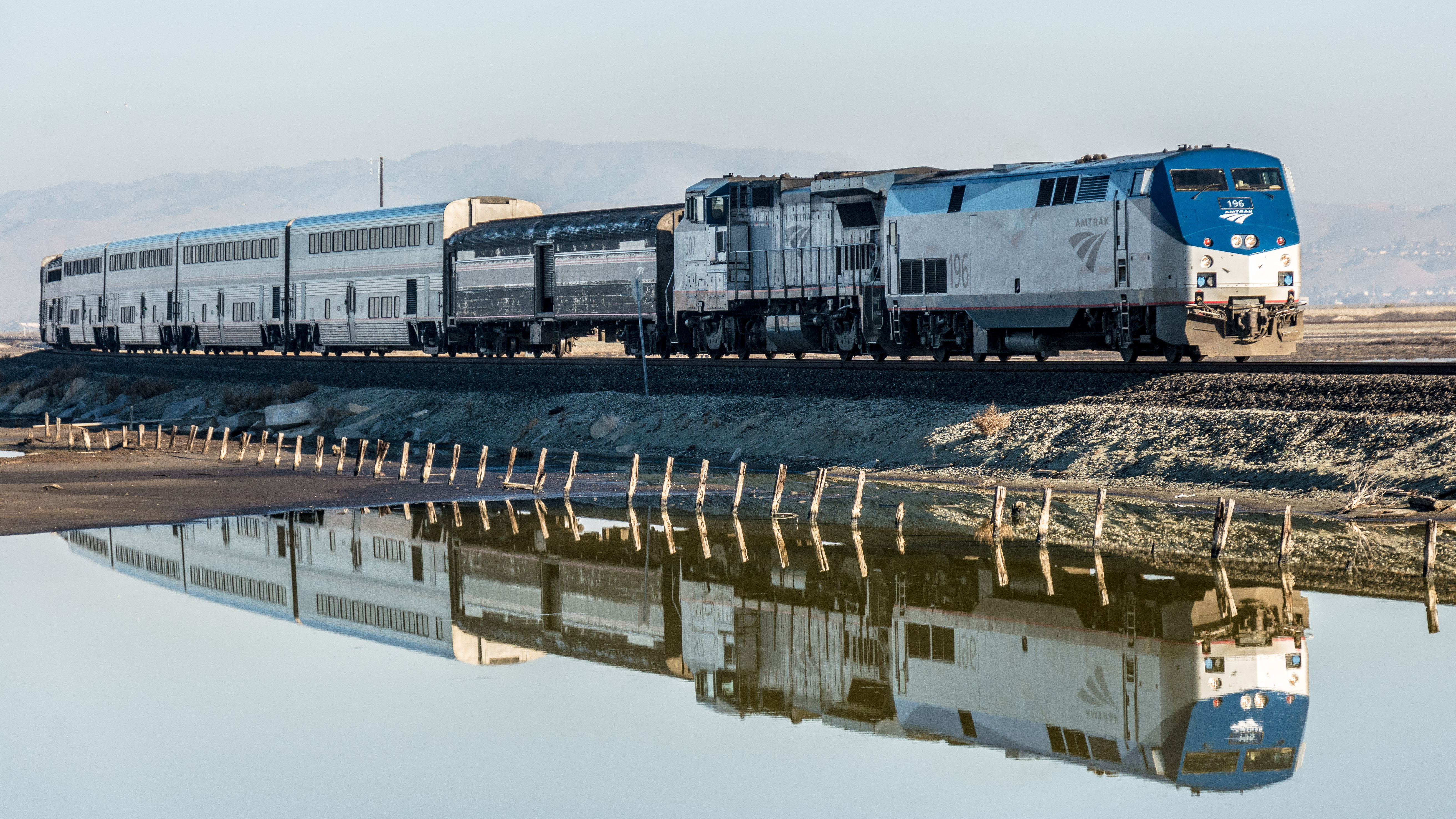 The southbound Coast Starlight passes Alviso Marina north of San Jose in December 2013